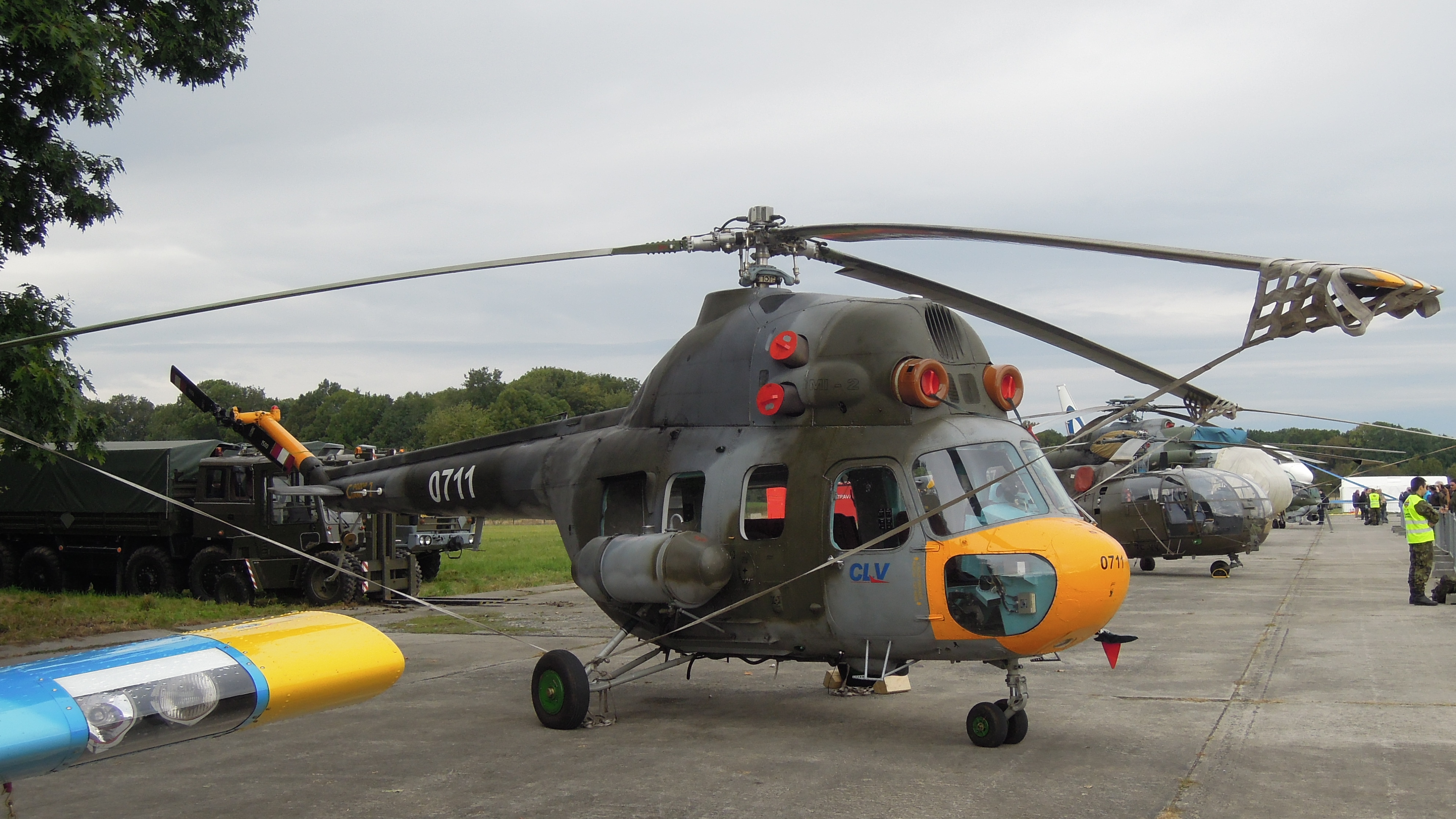 Helicopter Mil Mi-2, photo was taken during 2012 NATO Days in Leoš Janáček Airport Ostrava, Czech Republic